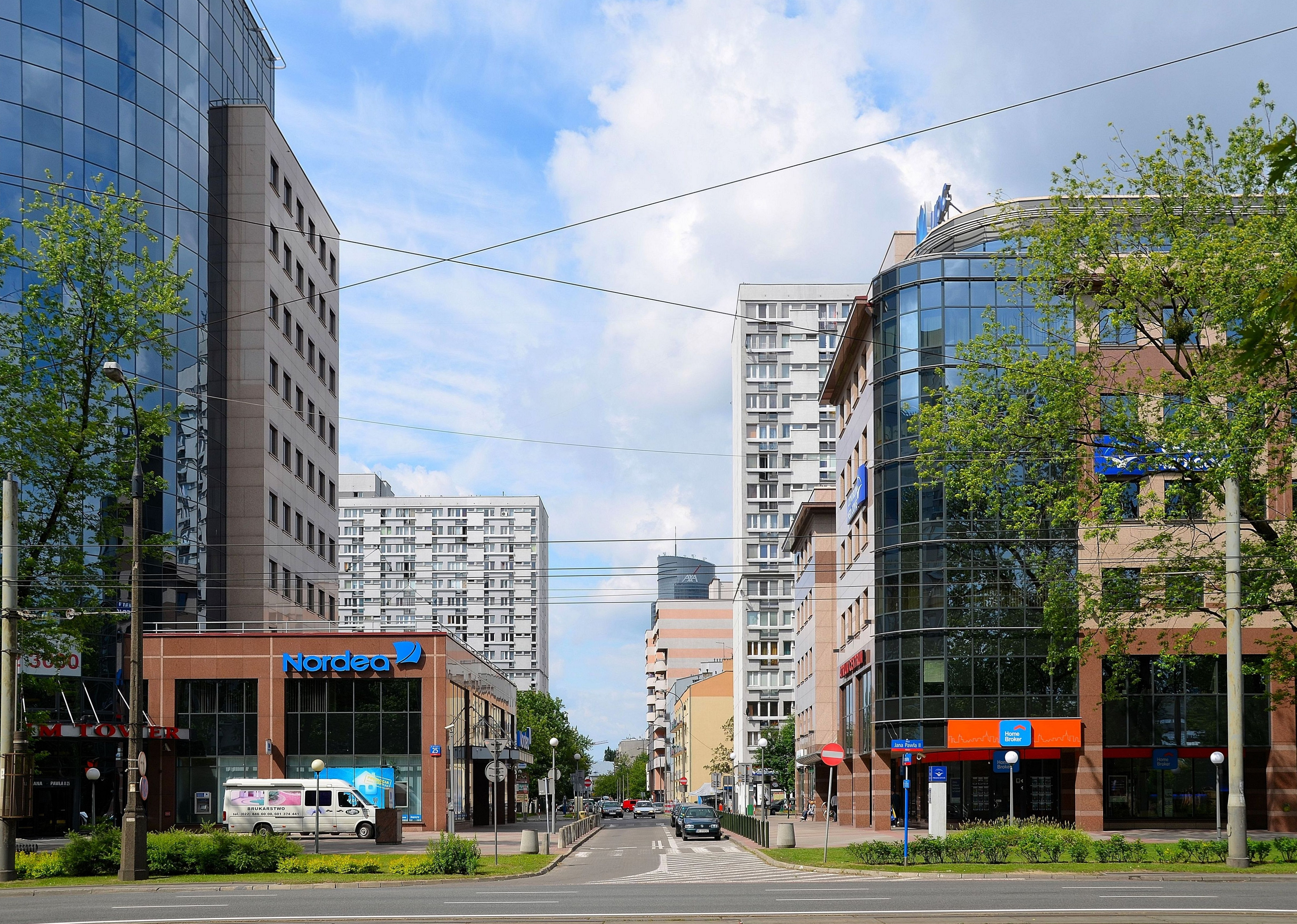 Krochmalna Street in Warsaw near John Paul II Avenue